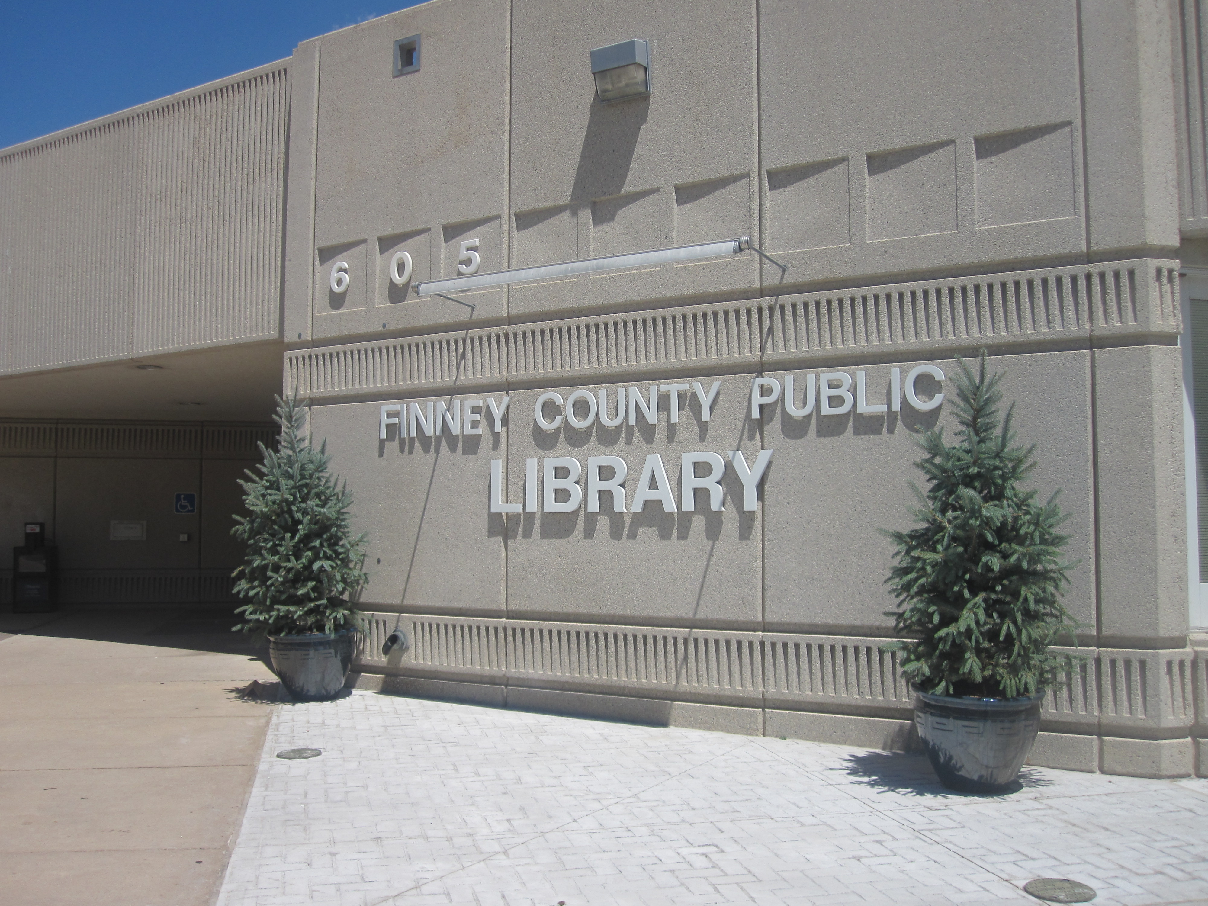 I took photo with Canon camera in Garden City, KS.